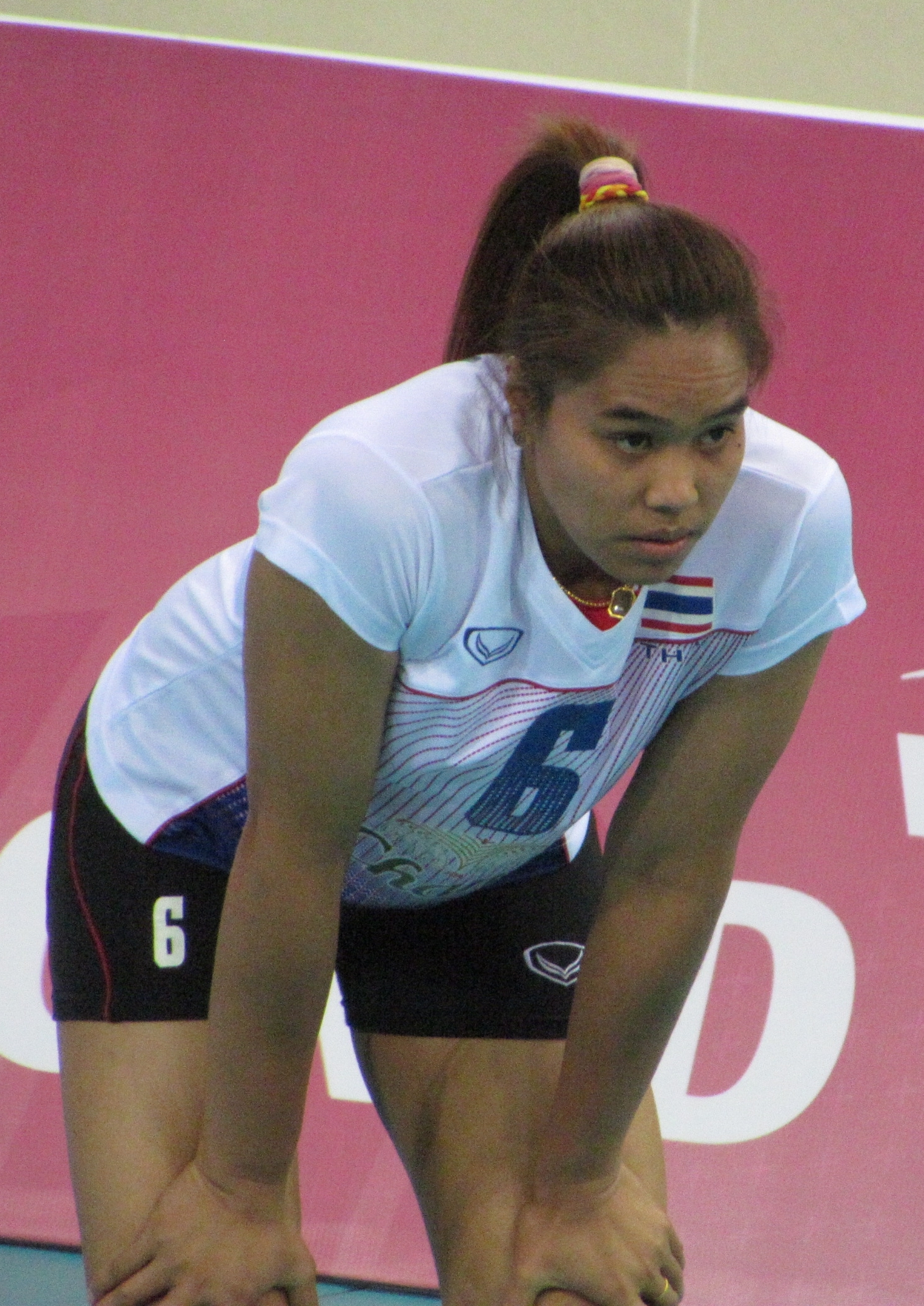 Onuma Sittirak